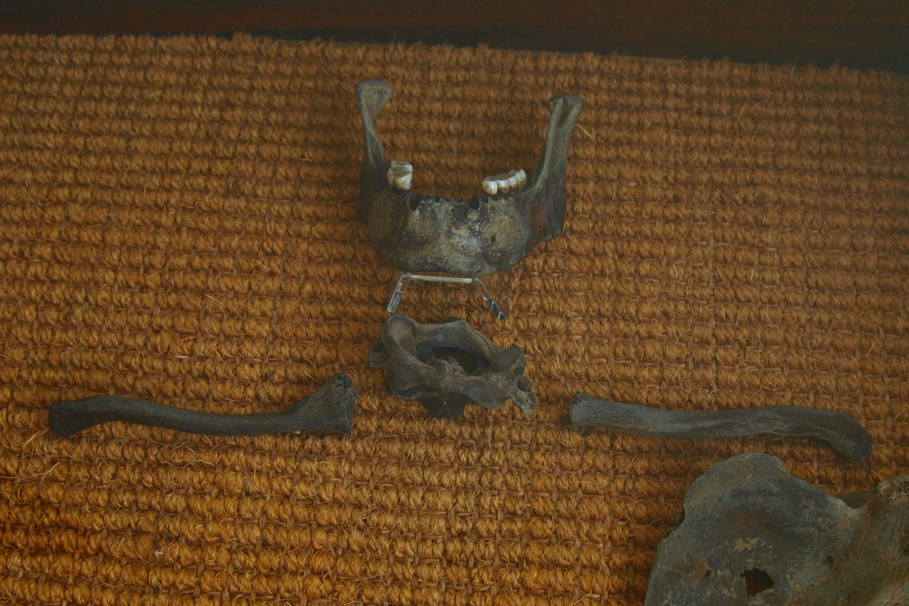 Remains of bog body Bremervörde Gnattenburgswiesen, Bremervörde FStNr. 98. Fund in late September 1934 at Gnattenburgswiesen near river Oste at Bremervörde, Landkreis Rotenburg (Wümme), Lower Saxony Germany. Dating to 7th - 8th century AD. Photographed at Bachmann-Museum, Bremervörde, Germany. Inventory No. A 2010:0243.